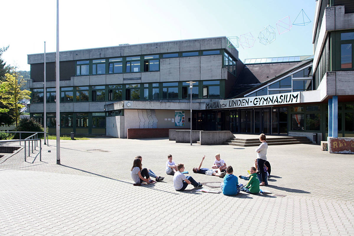 Der Altbau des Gymnasiums.